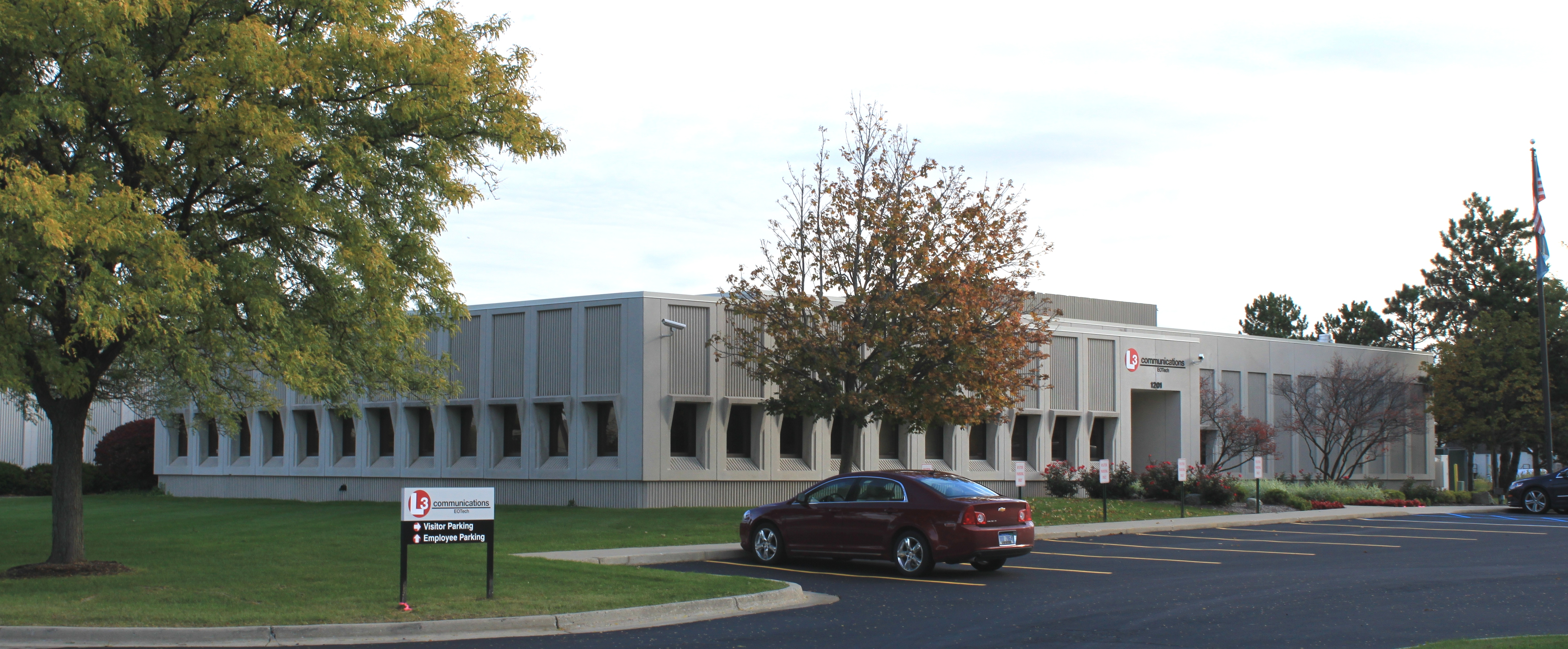 EOTech headquarters building, 1201 East Ellsworth Road, Pittsfield Township, Michigan